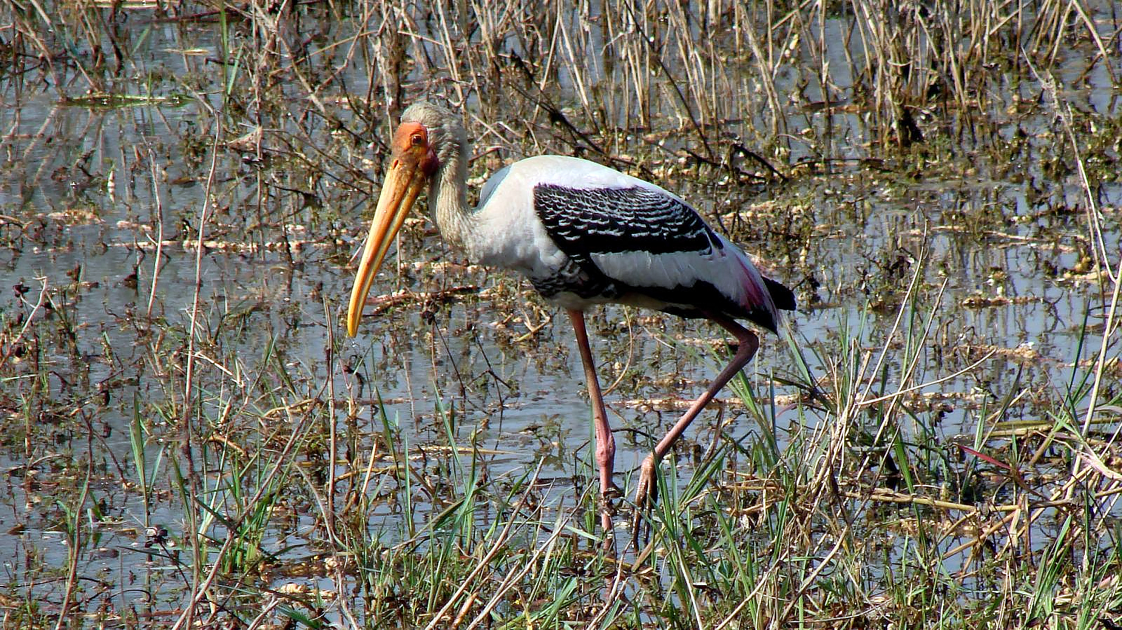 Painted Stork searching for its next prey at Bharatpur Bird Sanctuary, Rajasthan, India.